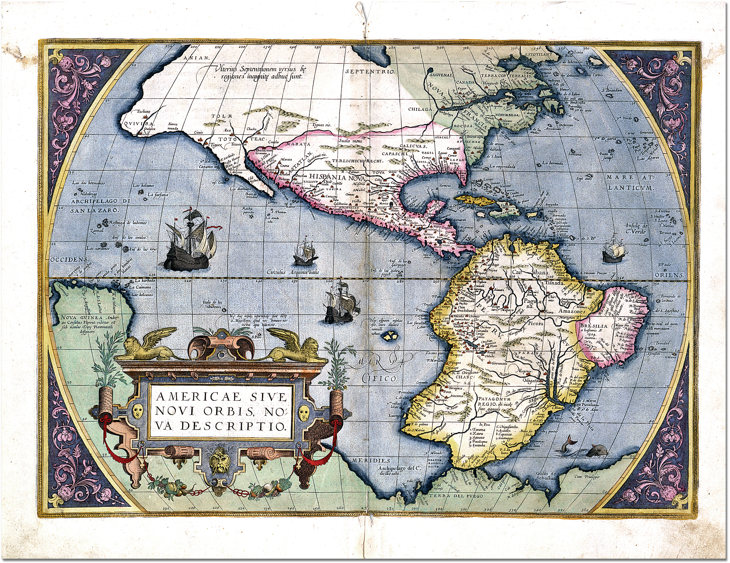 Sixteenth century map of "The Americas, or, the New World."